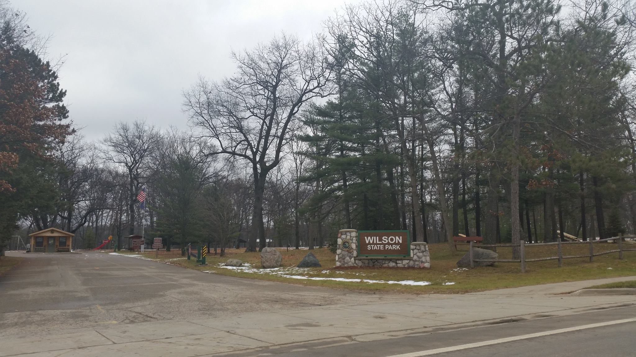 Wilson State Park